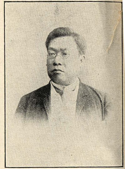 Hoshi Toru was a politician of Japan in Meiji period.